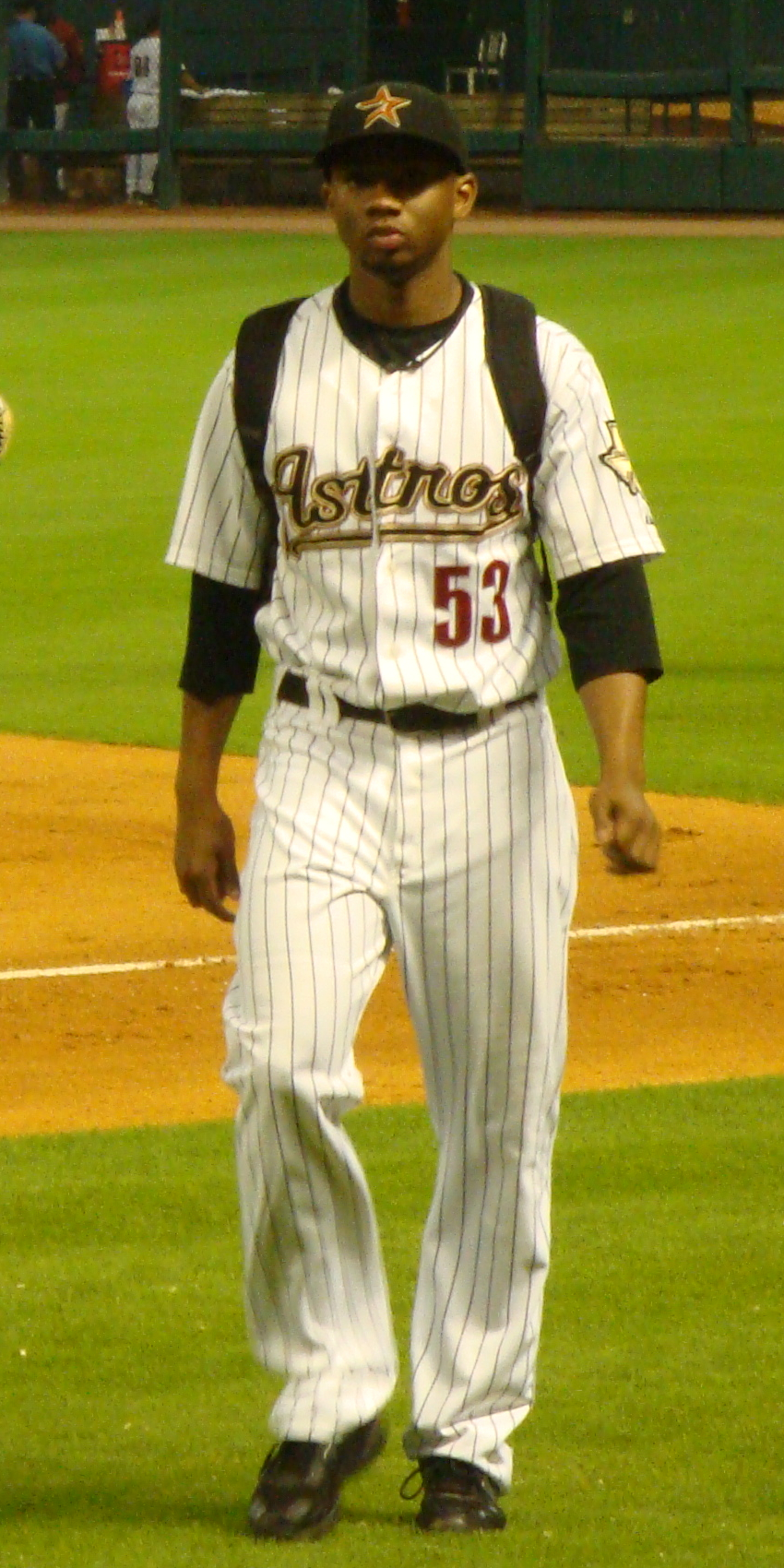 Wesley Wright